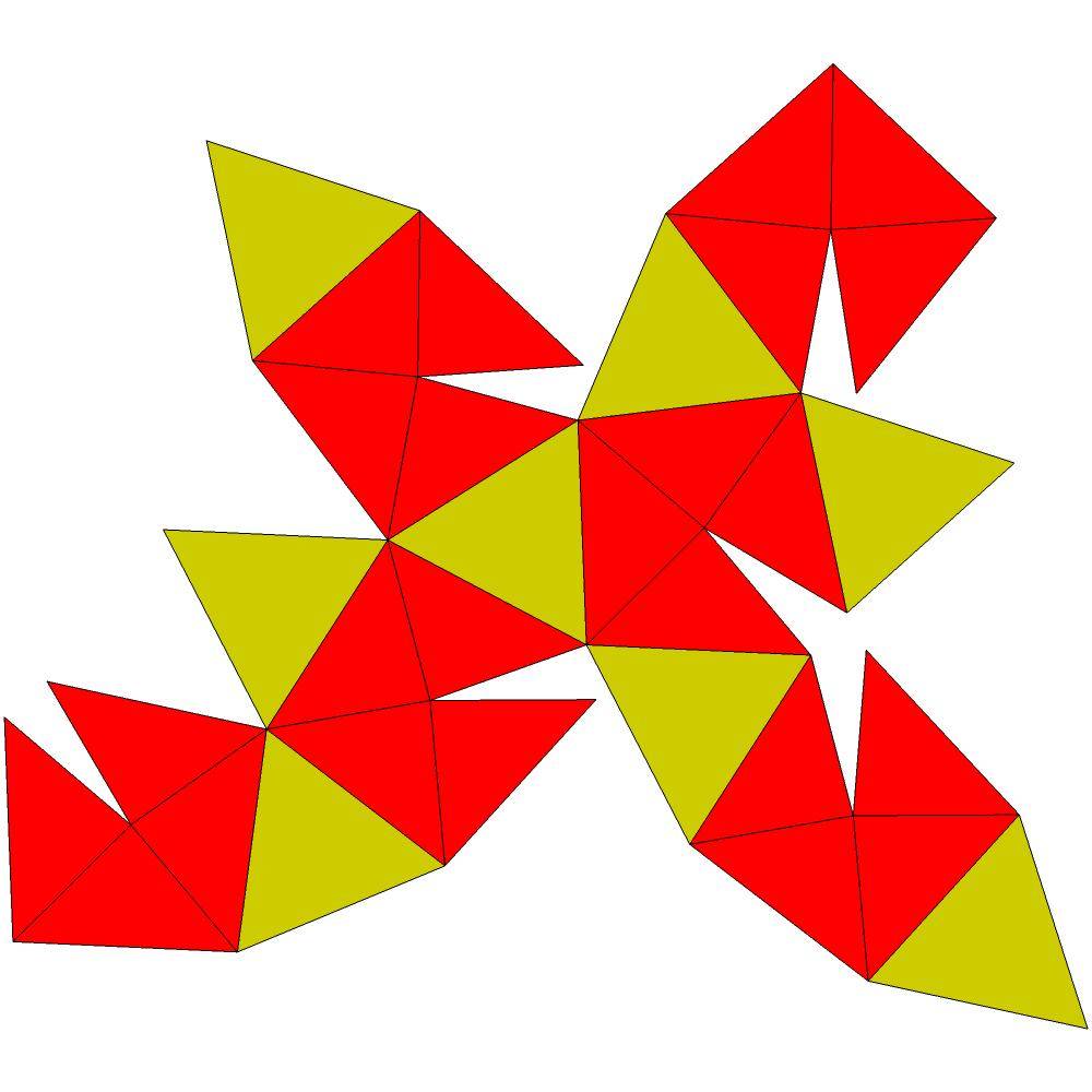 Tetrakis_cuboctahedron Net (polyhedron)